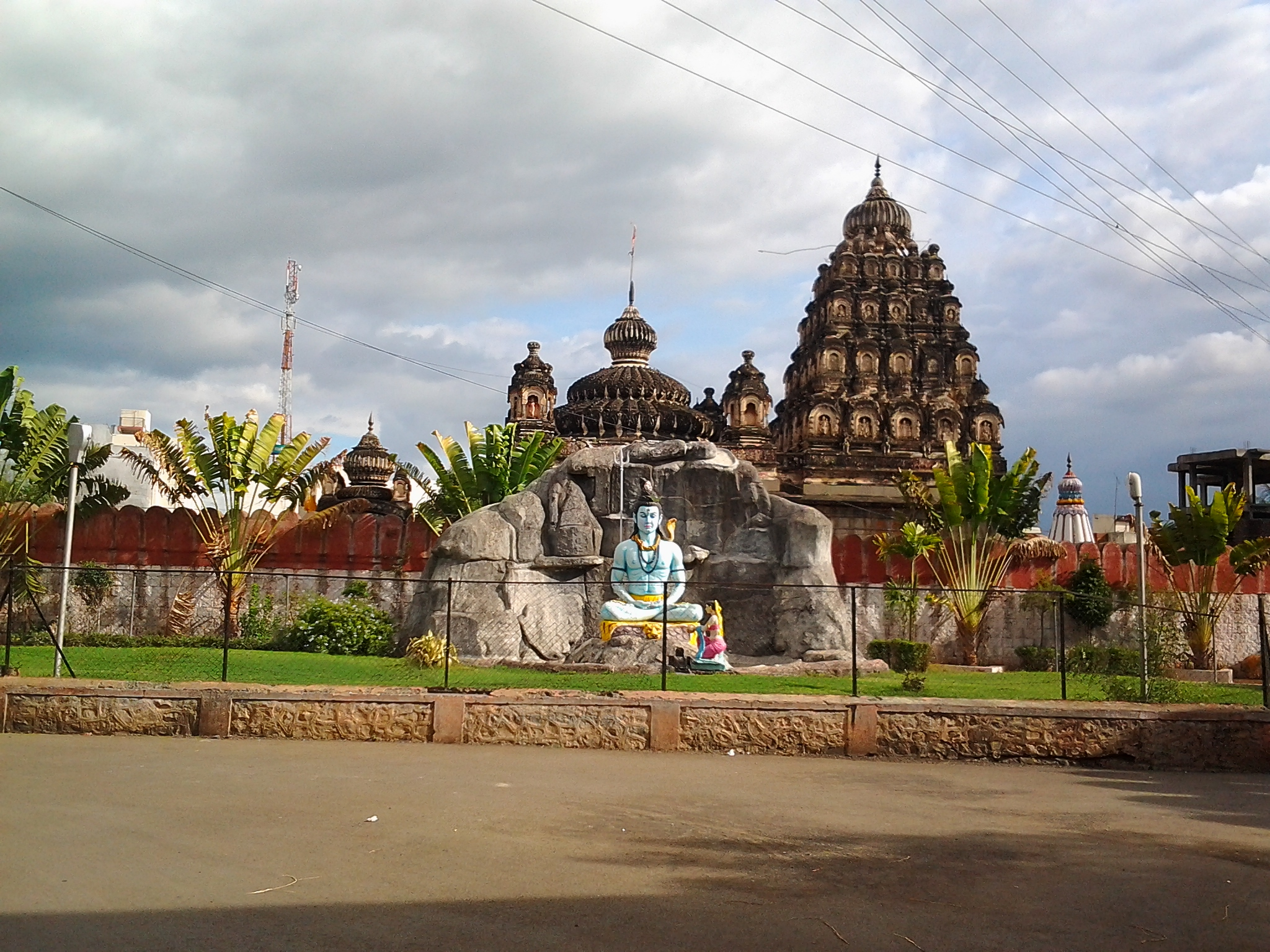 Siddheswar Temple, One of the oldest temples in Maharashtra.